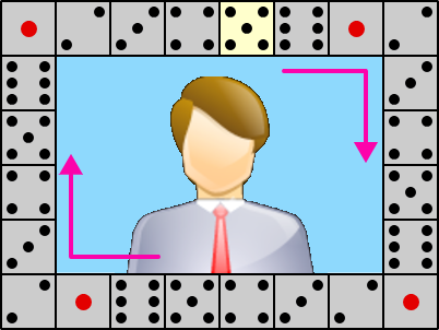 An imege of the Electric Dice in 'Sugoroku Game: Around the World', Japanese TV game show.